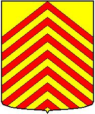 coat of arms